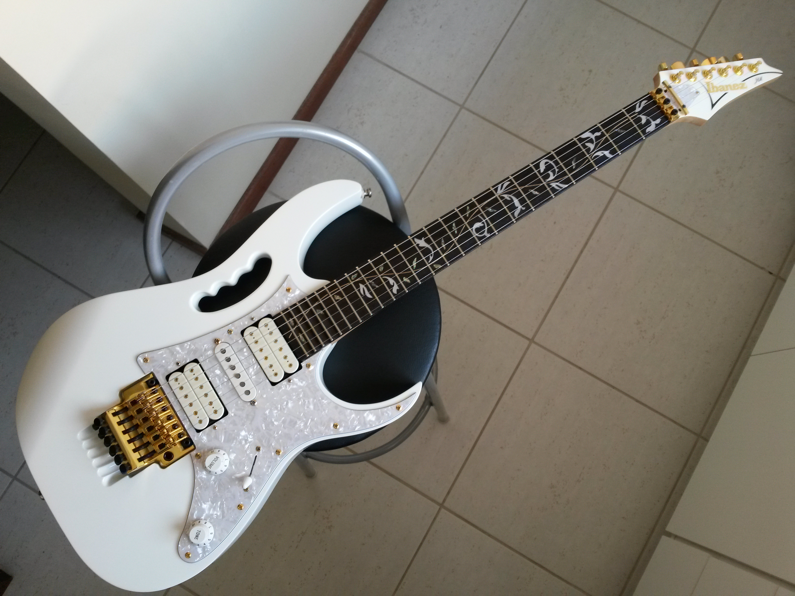 Ibanez Jem 7VWH guitar, 2010 model.